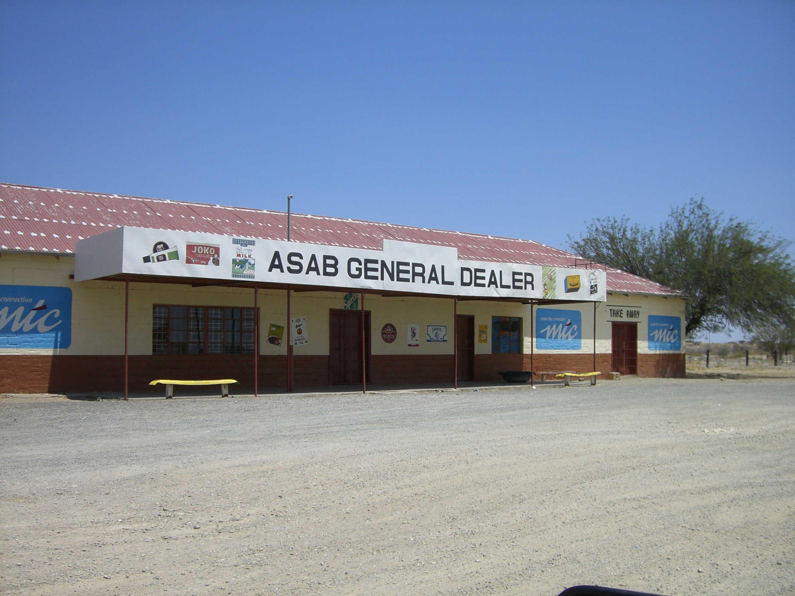 The General Dealer (store) in Asab, southern Namibia.